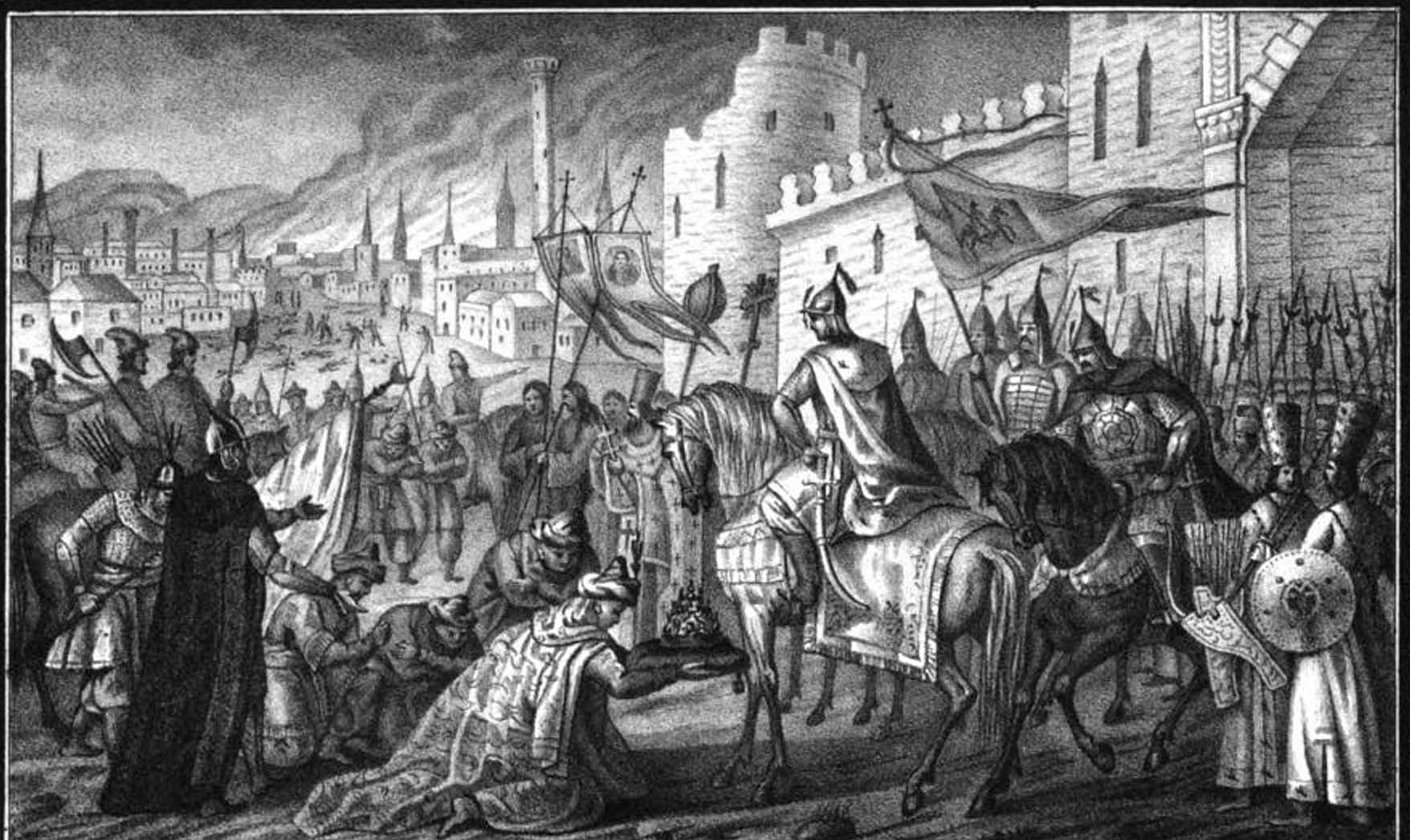 Capture of Kazan by Ivan Grozny’s Forces